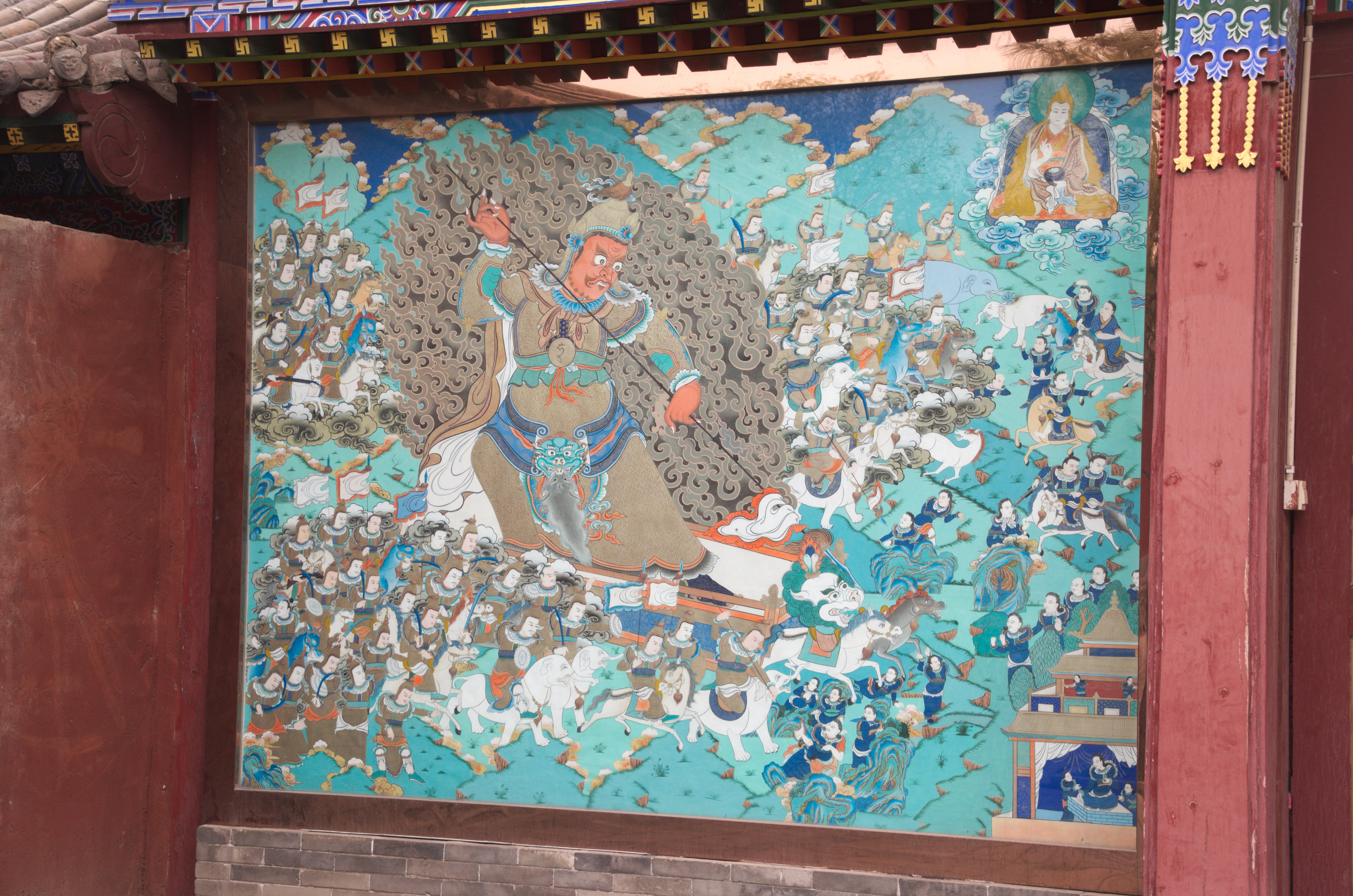 Paint of the Dazhao temple in Hohhot in Inner Mongolia. We can see at upperleft, a Dalai-lama, probably the 5th. This is a battle scene with a big bouddhist war deiti in the middle surrounded by warriors on horse and white elephants, with, in their hands, sabres and banner with moon crescent.